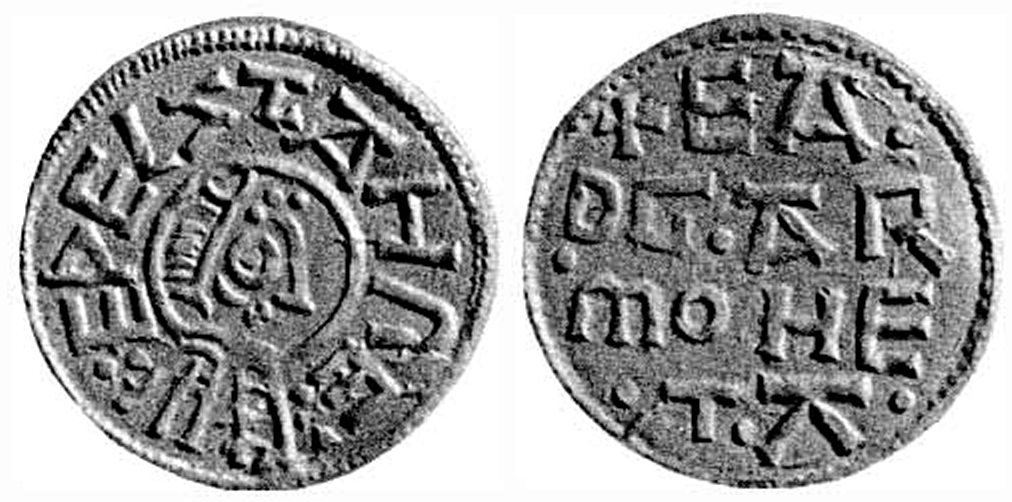 Coin of eastanglian King Æthelstan (827-845)